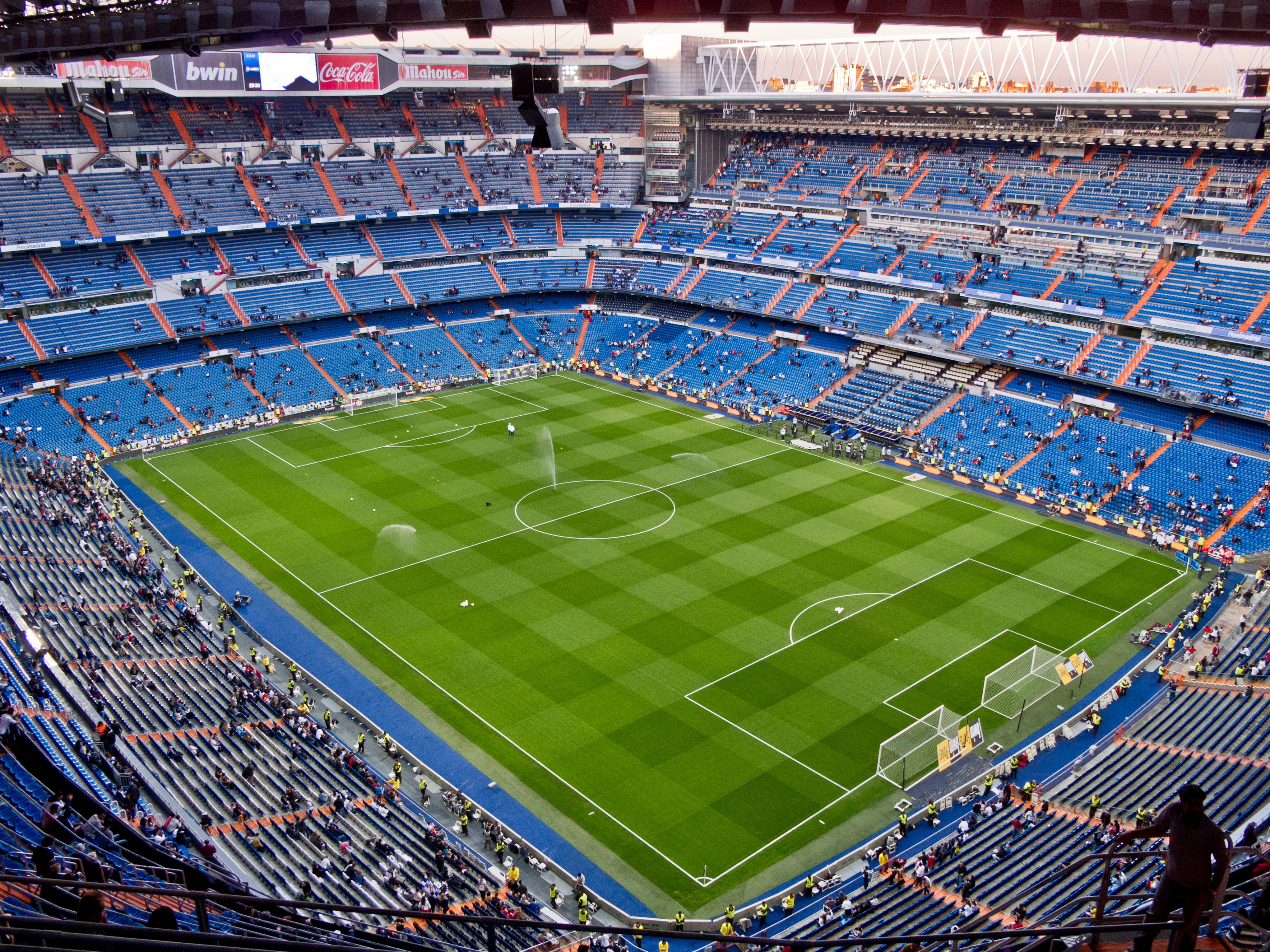 Santiago Bernabéu Stadium, Madrid, Spain.